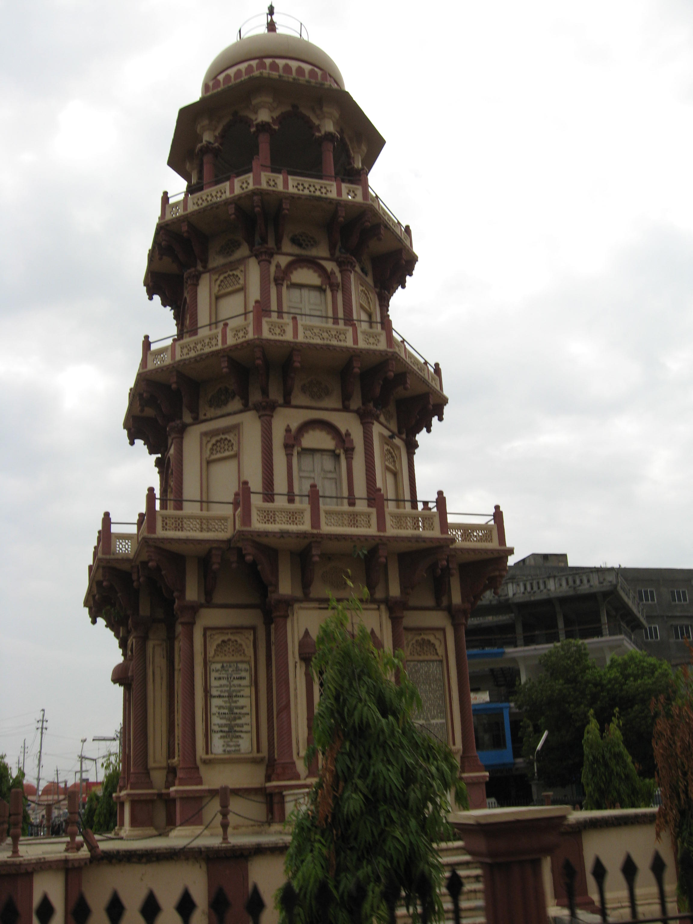 Kirtistambh is an important historical monument of Palanpur.